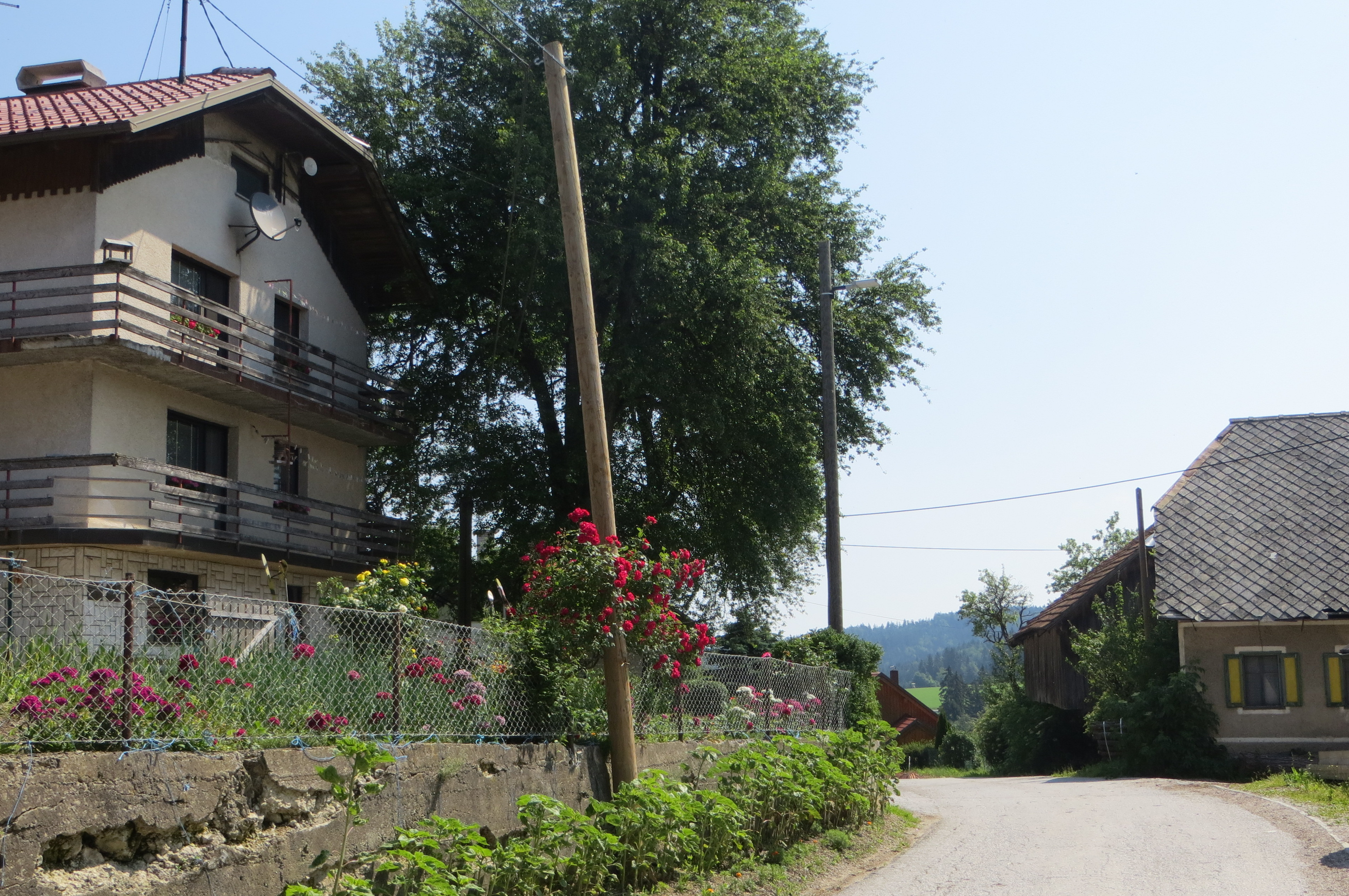 Mali Rakitovec, Municipality of Kamnik, Slovenia